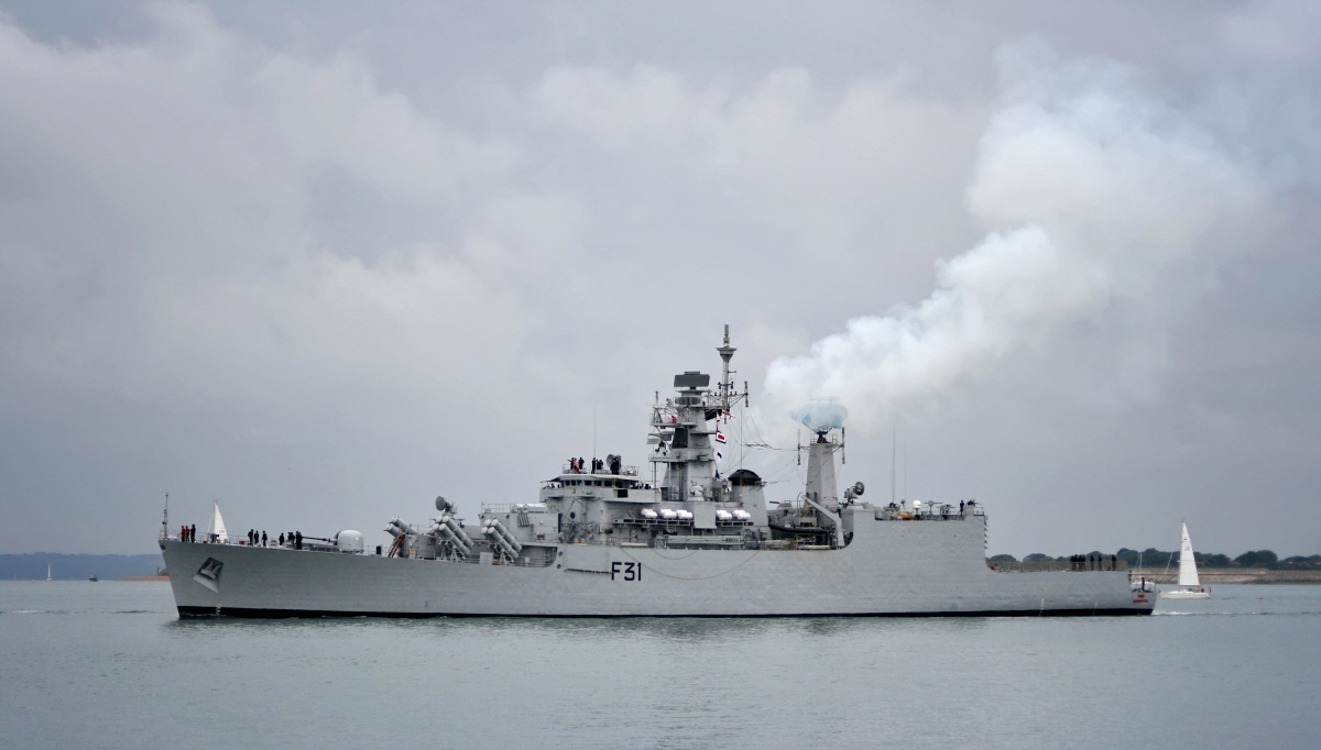 INS Brahmaputra F31, an Indian Navy Brahmaputra class frigate (a modified UK Leander class) departing Portsmouth Naval Base, UK, 20th June 2009. Image uploaded by me User:George.Hutchinson from a photograph taken by and supplied by Brian Burnell. Wikipedia editors are reminded that the copyright remains with the photographer, and that the terms of the Creative Commons licence; that allow editors to reuse this image apply to Wikipedia editors also, as they do to other re-users of this image. Breaches of the licence terms are not only unlawful, but are also antisocial, in that breaches discourage photographers from making their images freely available to everyone without payment. Wikipedia re-users are also reminded of the license terms that derivatives of this image should not imply that the adaptation is endorsed or approved by the author or copyright holder. Neither should derivatives be presented as the creation of the author or copyright holder, while clearly stating that the adaptation is a derivative of the original. Attribution online should be in this format Brian Burnell. On the printed page, a simpler form is acceptable - example: "Image: Brian Burnell". Non-Wikipedia users are requested to advise Brian Burnell of its use other than on Wikipedia.